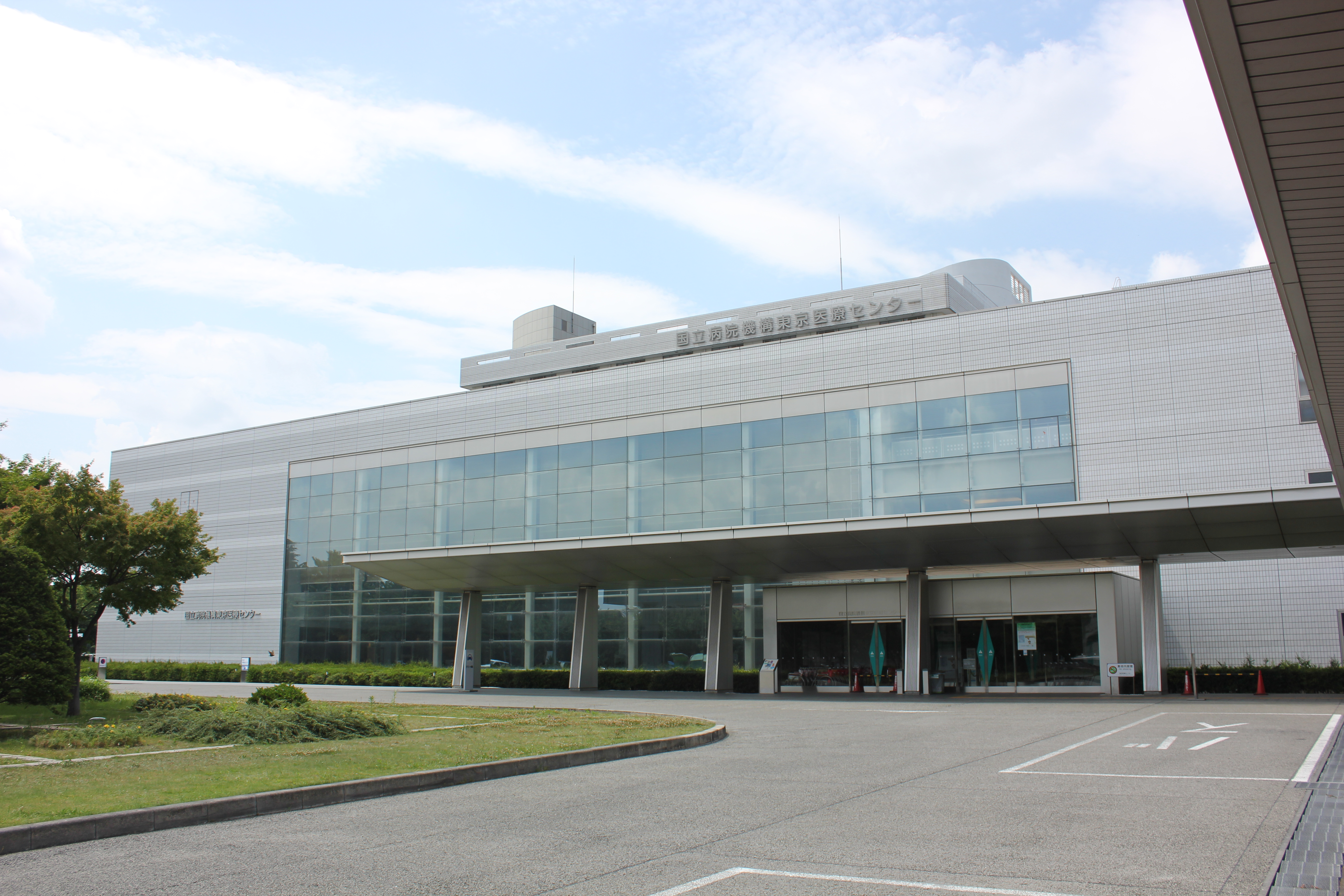 National Hospital Organization Tokyo Medical Center